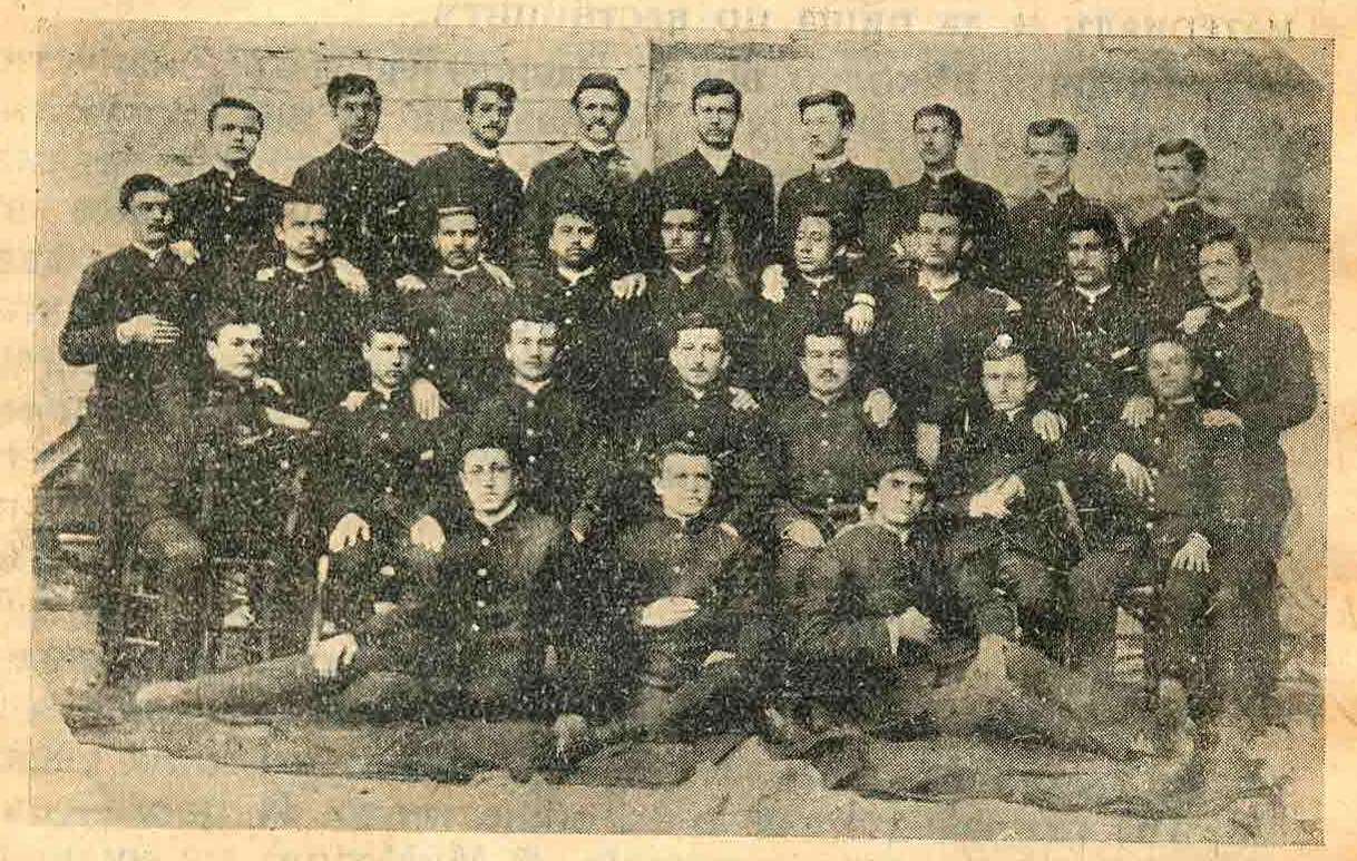 Students_in_Thessaloniki_Bulgarian_High_School_7th Grade